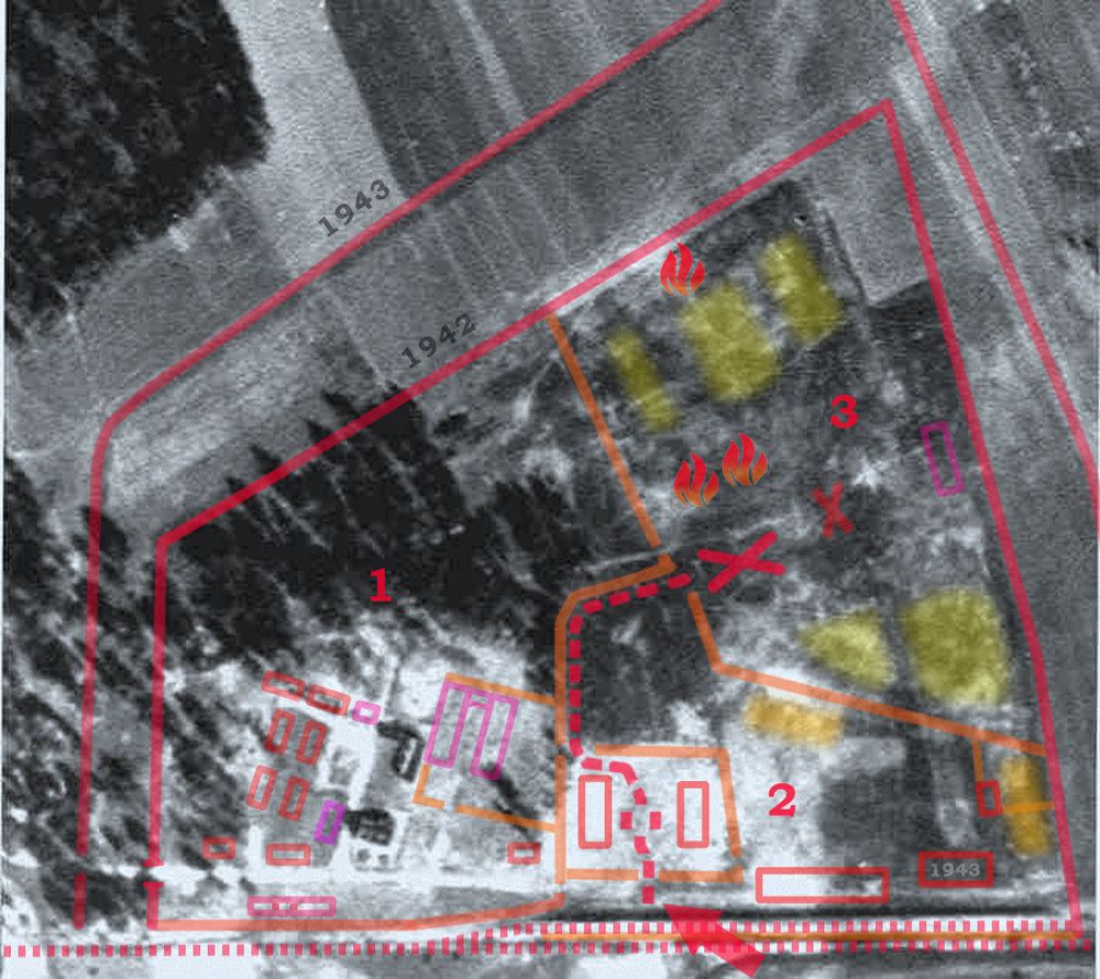 Treblinka II extermination camp of the Operation Reinhard in German-occupied Poland. Aerial photograph of the camp perimeter taken in 1944; several months after the dismantling of the camp. All known structrures are gone except for the farmhouse built within it and lifestock shed (lower left). The photograp is overlayed with the known structures as described on the map of Treblinka drawn by Mr. Peter Laponder, builder of the Treblinka Model at the new Cape Town Holocaust Center, digitized by ARC and made available at the Mapping Treblinka webpage. On the left hand side, the color outlines show dismantled SS and Hiwi guards living quarters with most barracks clearly defined by the surrounding walkways. The railway unloading platform (lower centre) consisted of two parallel ramps visible in the bottom, marked with the red arrow. Location of new expanded gass chambers marked with a cross. Undressing barracks and sorting yard (separate for men and women with hair-cropping area) marked with two rectangles surrounded by solid fence with no view of the outside. The adjacent "Sluice" through the woods separated by barb-wire fence, marked with red dashed-line.